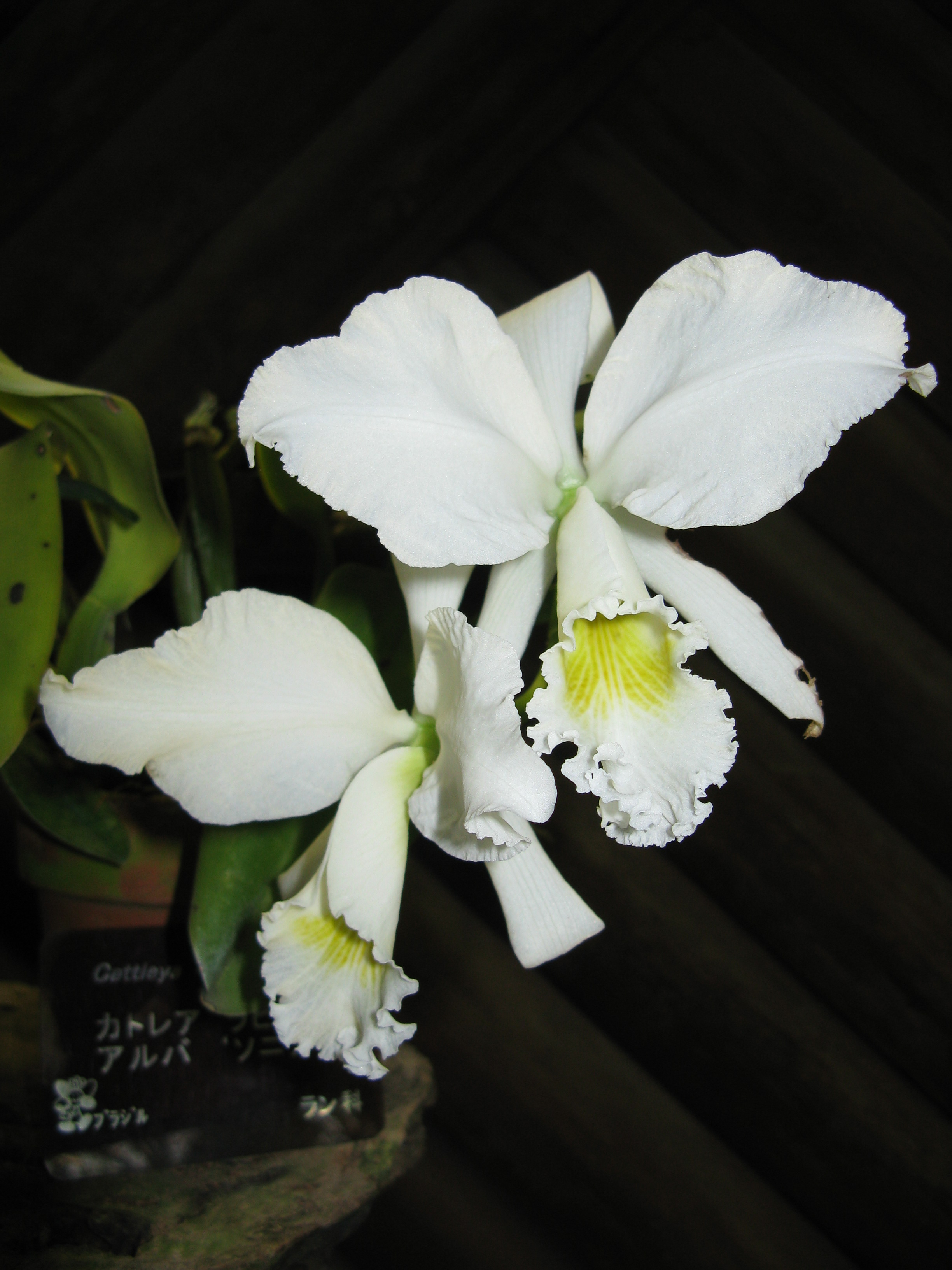 Cattleya labiata var. alba 'Sonia' Place:Osaka Prefectural Flower Garden,Osaka,Japan